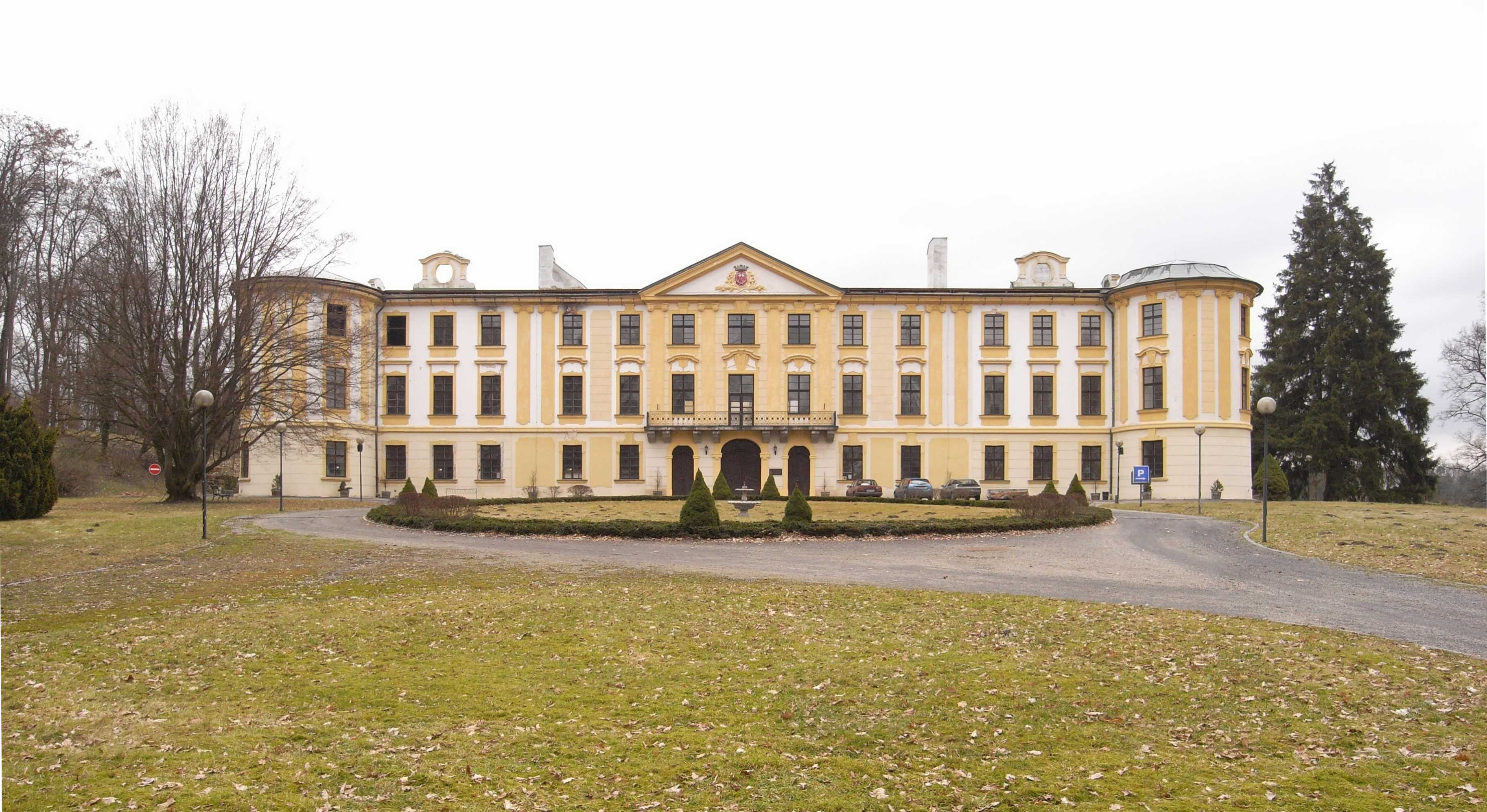 castle Zahrádky, Česká Lípa District (Northern Bohemia, Czech Republic)